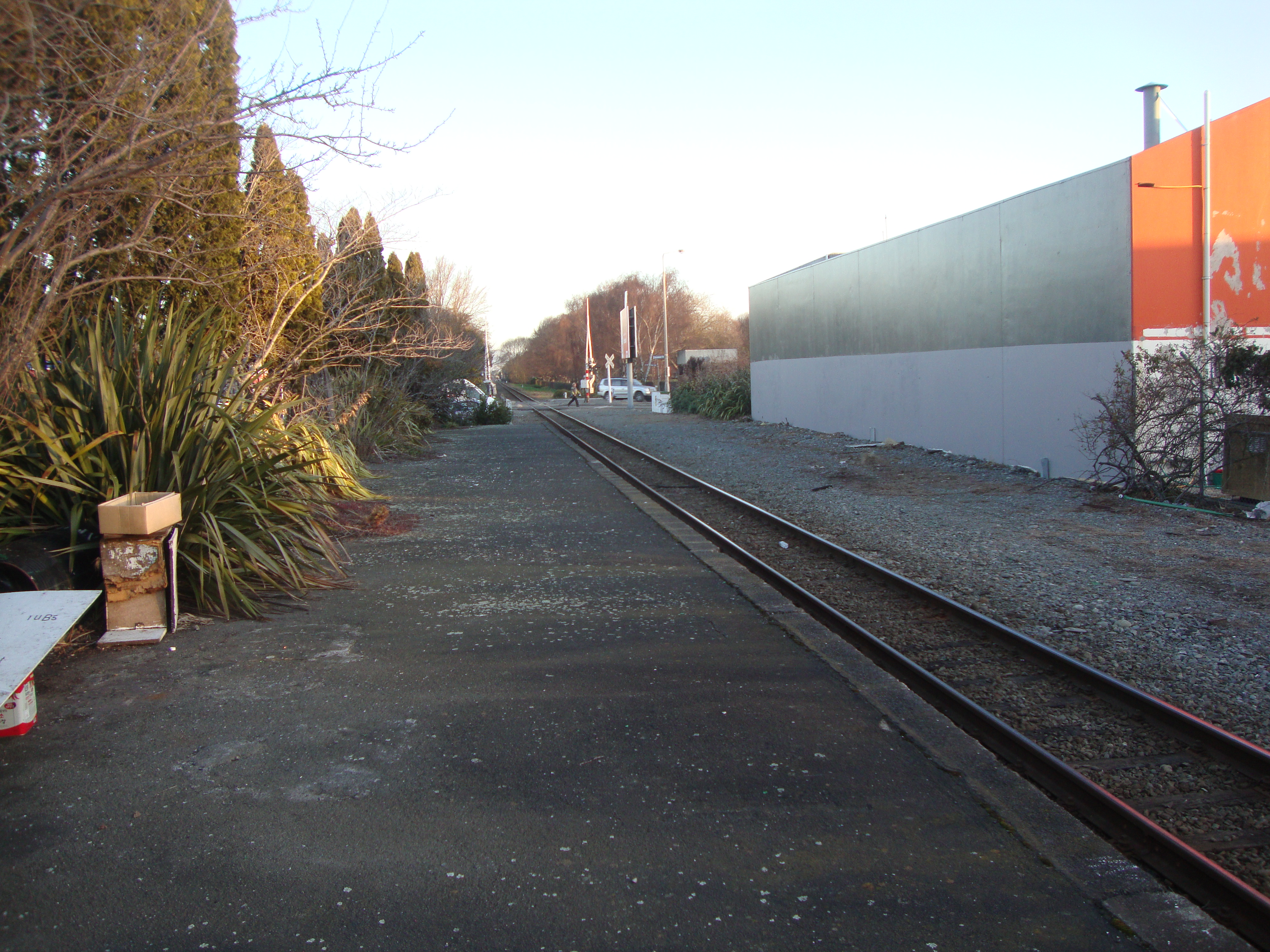 Papanui Railway Station in Restell Street; view of the railway tracks south.